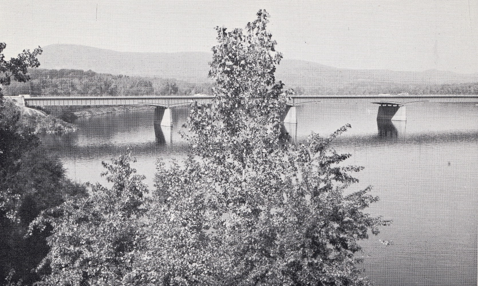 The Joseph E. Muller Bridge over the Connecticut River, and Mount Tom as they appeared in 1973. This card has no copyright notice and was determined to be published between 1969 through the summer of 1970 as shown on other cards in the set are Holyoke Community College's temporary building, constructed in 1969, and High Street without one-way traffic, enacted in 1970.